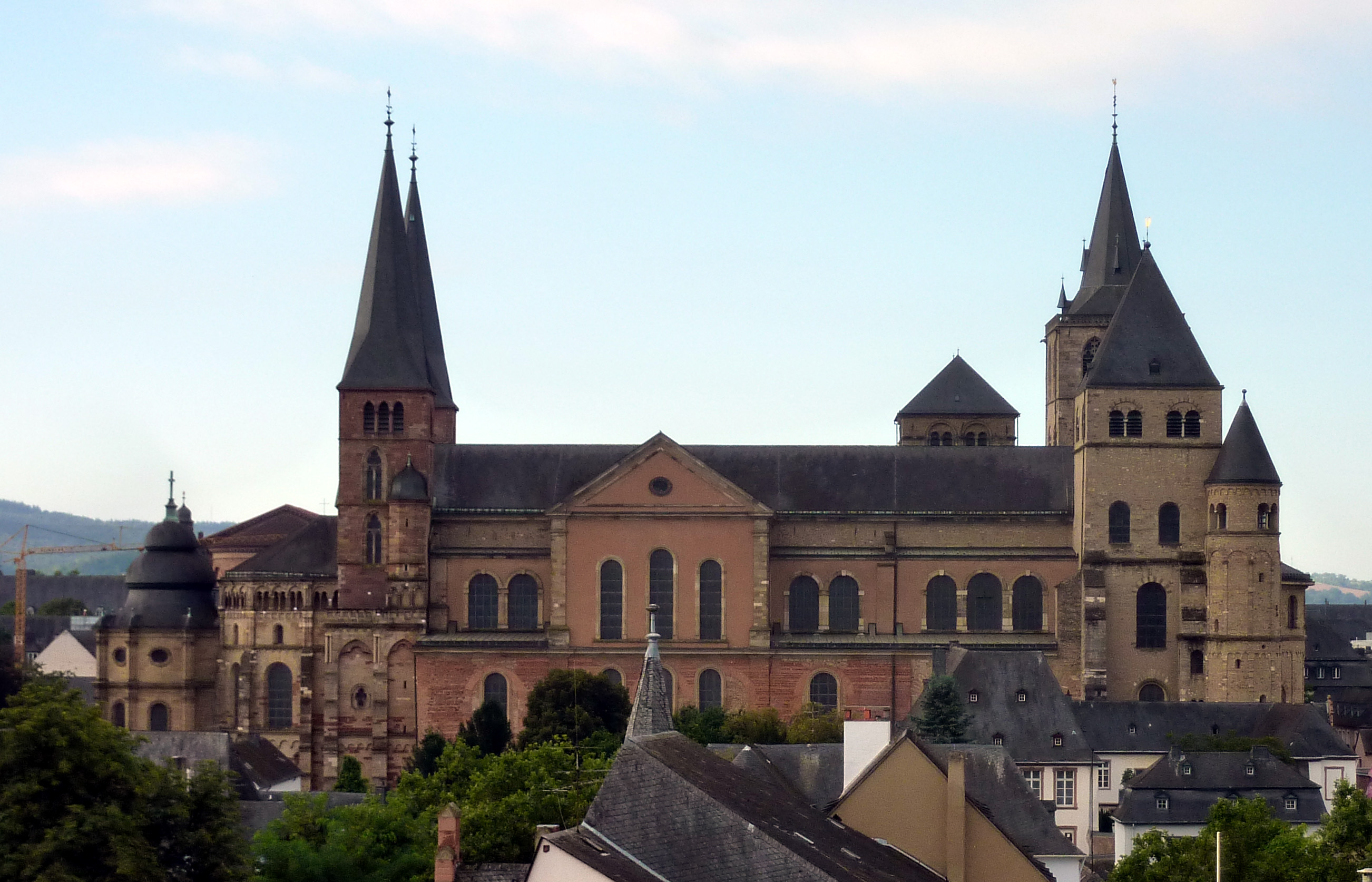 Cathedral of Trier from the north